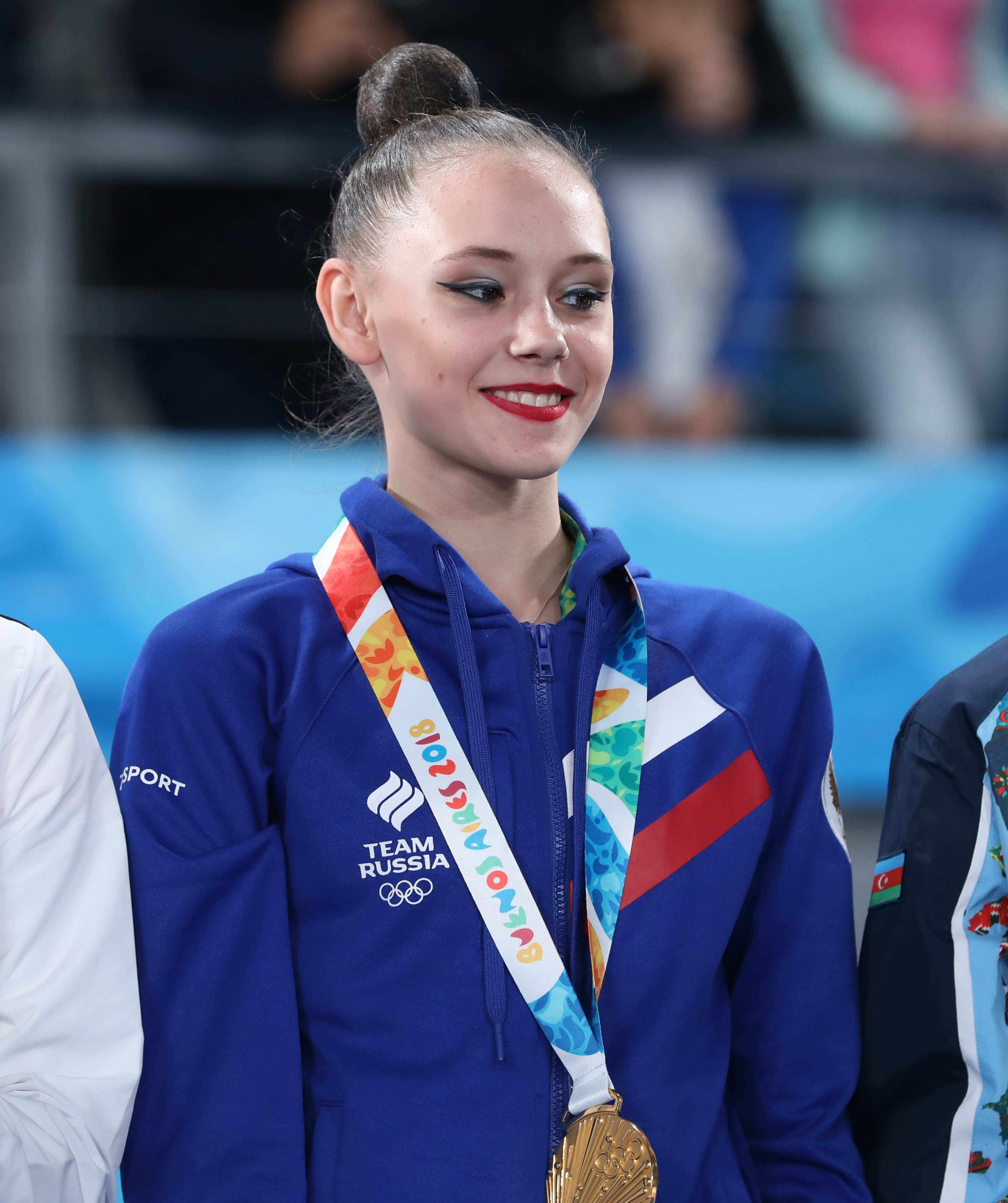 Gymnastics mixed multi-discipline team competition: Victory ceremony